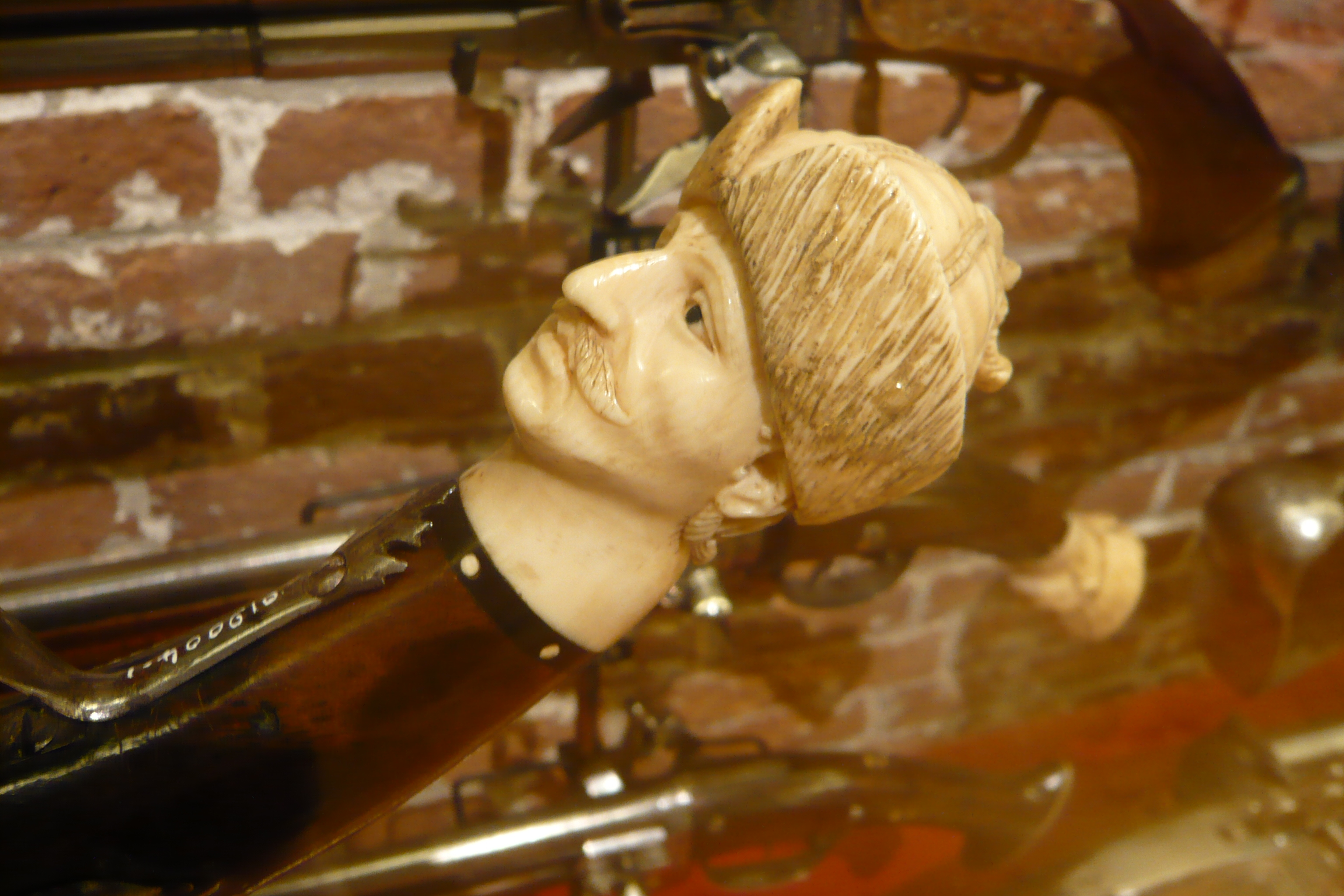 Weapons in the Legermuseum, Delft - July 2011